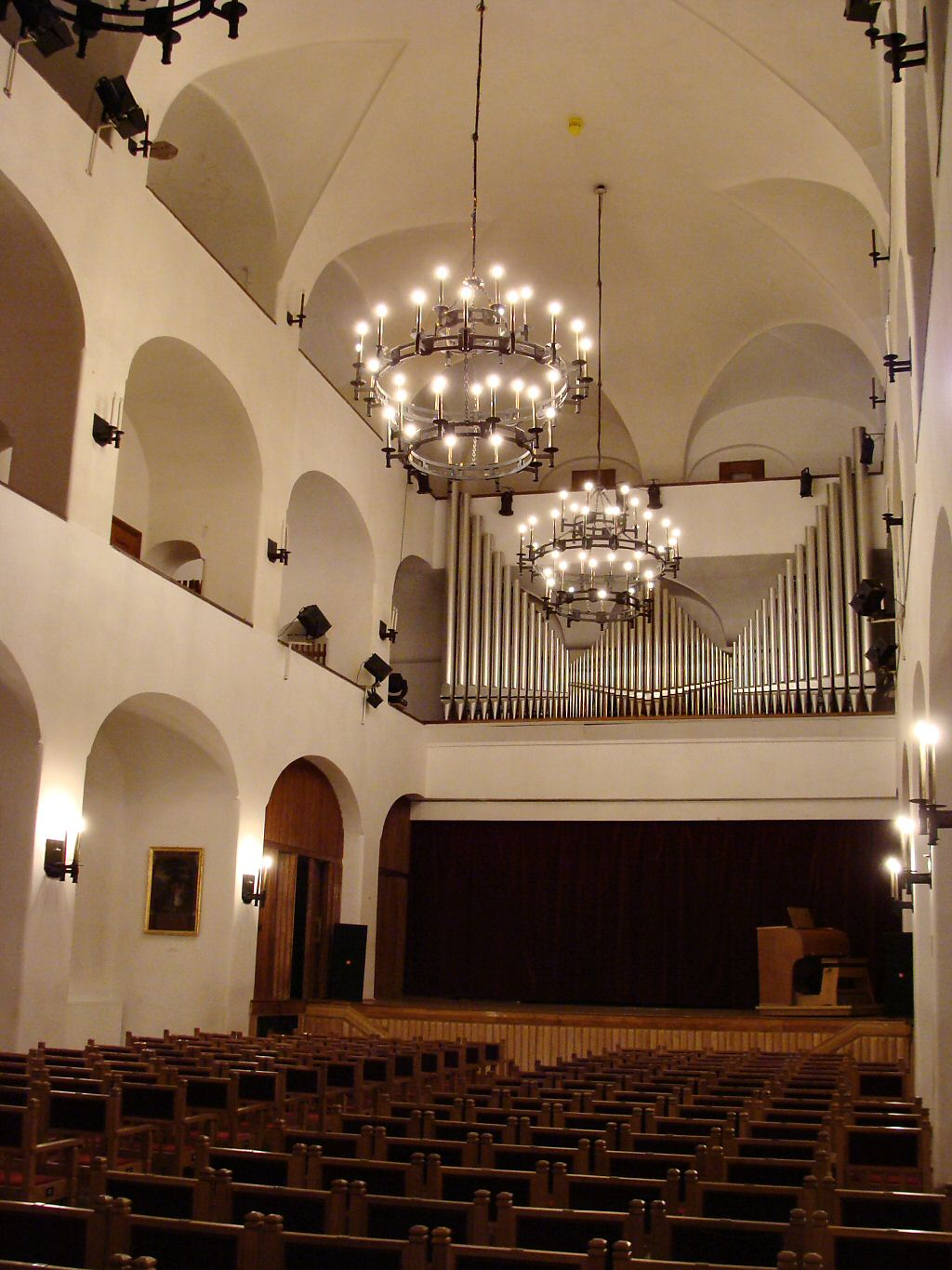 Interior of the Szczecin Castle